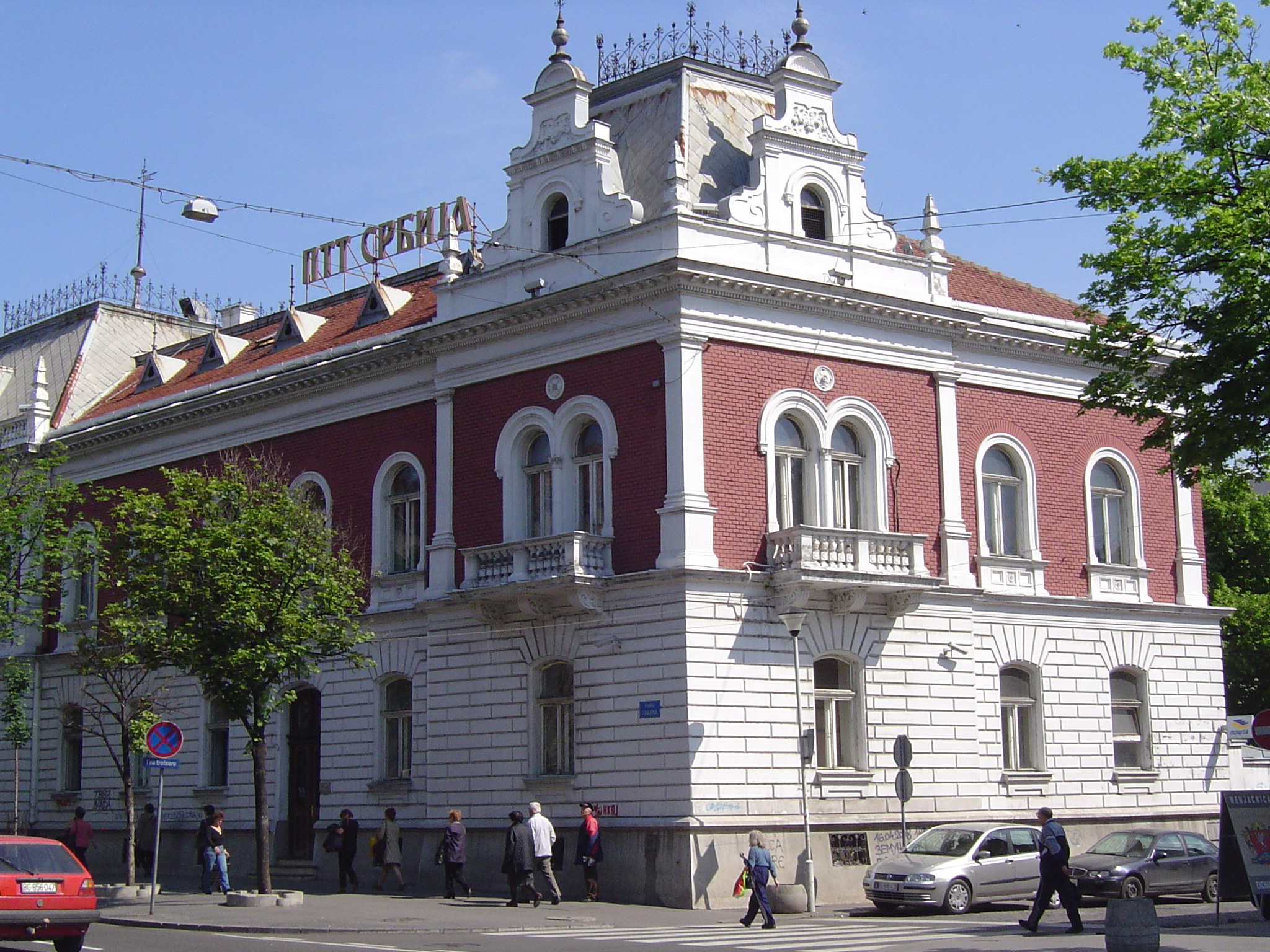 Main Post office in Glavna Street in Zemun, built by Franjo Jenč in 1896.